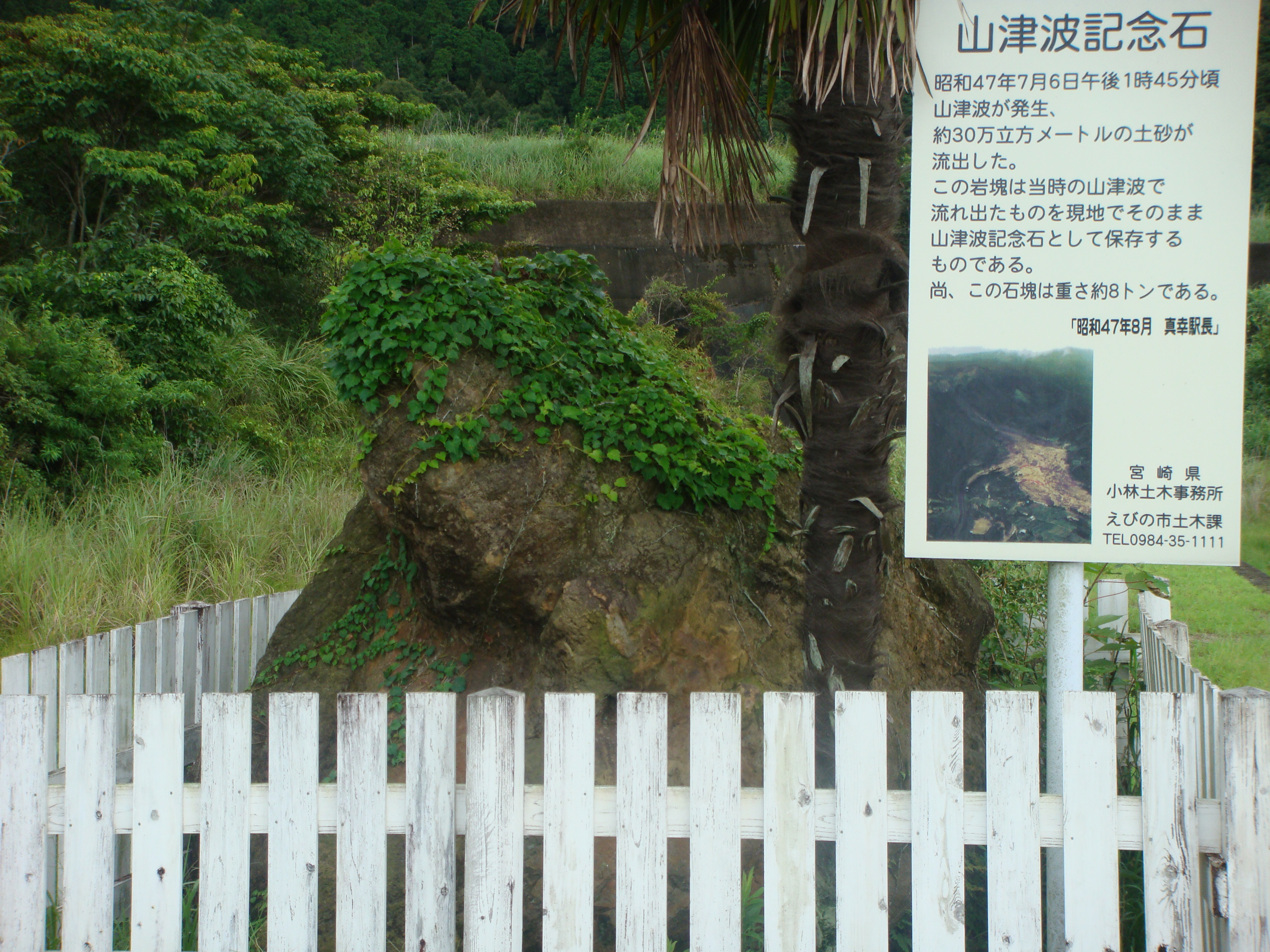 at Masaki station